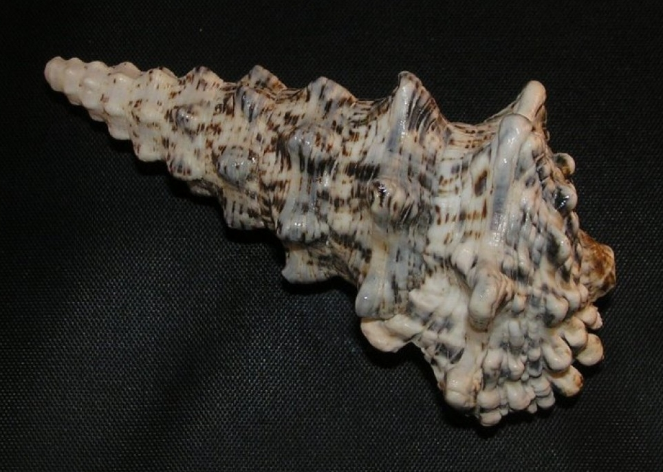 Photograph of the seashell Cerithium nodulosum Bruguière, 1792[1] / Origin of image: Own collection. Philippines. Samar.